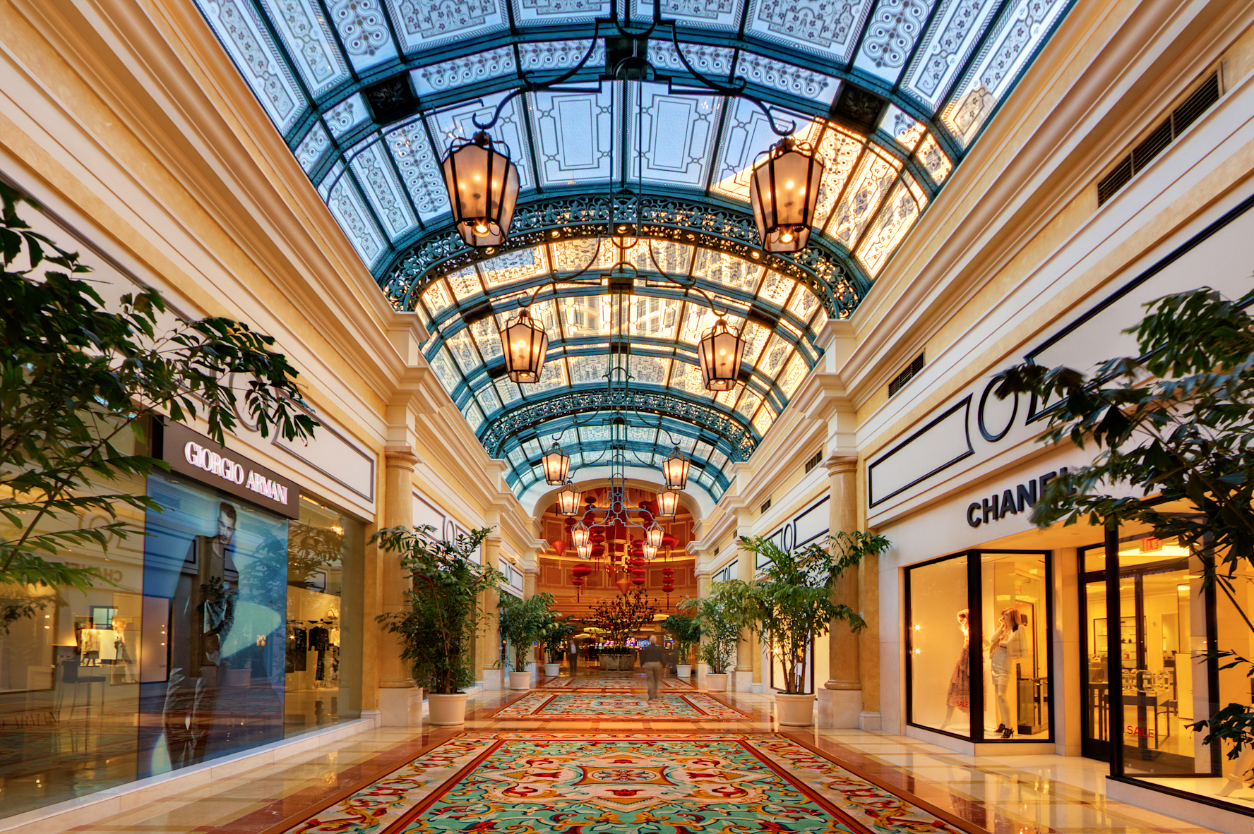 Interior of the Bellagio at 6:30am. Any other time of day it is super-crowded. HDR of 3 shots on tripod, ISO 100, 10mm, f11, (0.6, 1/6, 2.5 sec). Blended in Photomatix 4 using Exposure Fusion. In Photoshop: - Lens correction to straighten verticals. - Imagenomic Noiseware noise reduction. - Smart sharpen. - Curves to lighten the walls. - Nik Skylight filter on walls. - Nik Tonal Contrast on ceiling, carpet and Armani poster. - Freaky Details on same (to bring out the details on the ceiling and carpet). - Vibrance on ceiling to liven sky.